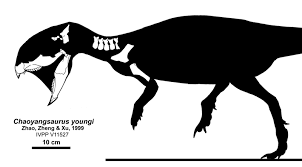 Skeletal restoration showing the known material of Chaoyangsaurus young.